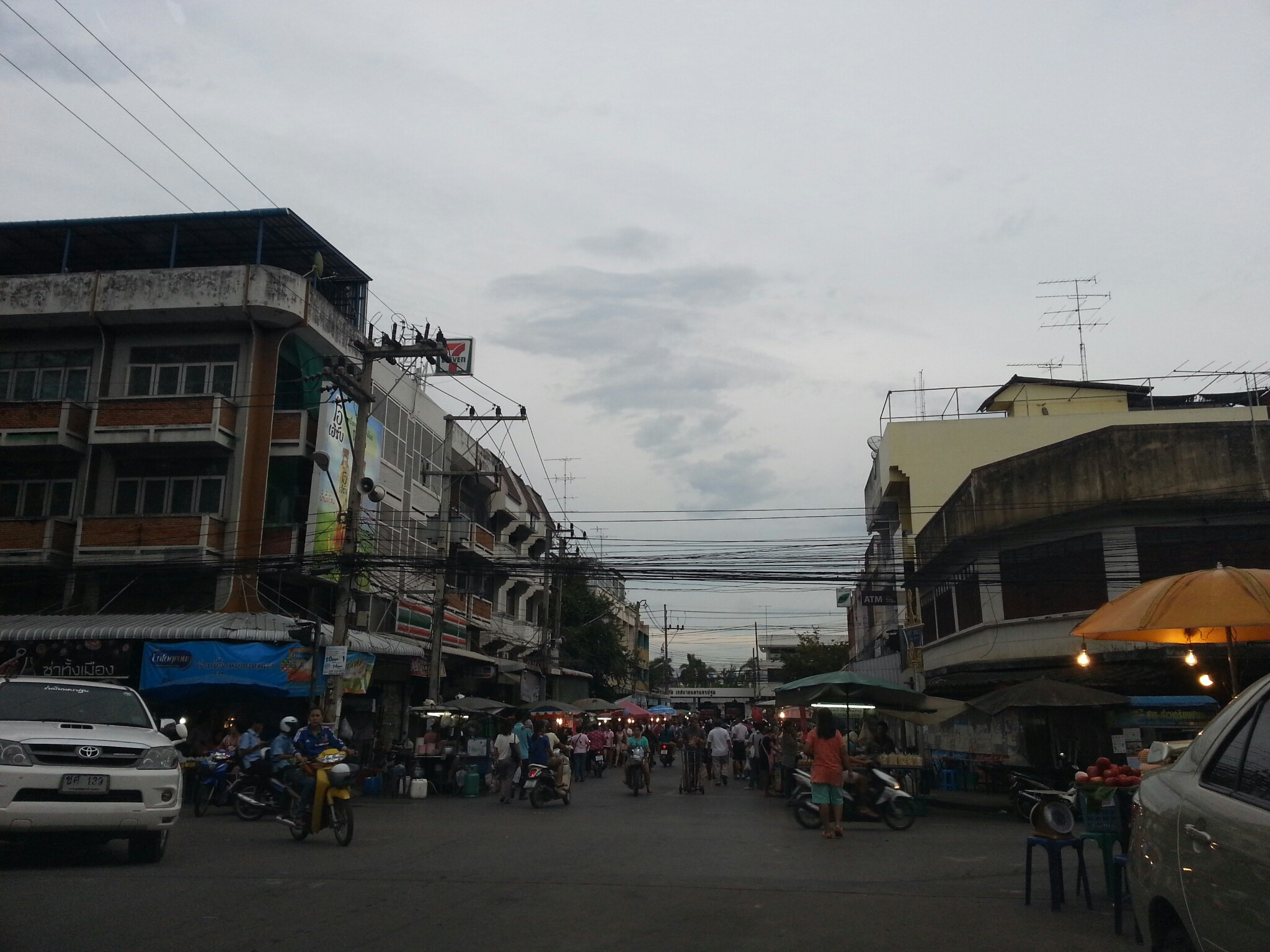 Phra Prathom Chedi, Mueang Nakhon Pathom District, Nakhon Pathom 73000, Thailand